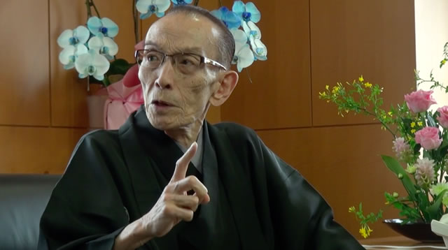 Utamaru Katsura, President of the Rakugo Art Association, received the Commendation for the Minister of Education, Culture, Sports, Science and Technology and the Silver Cup at the Central Government Building No.7 in Chiyoda Ward, Tōkyō Metropolis on May 31, 2016.